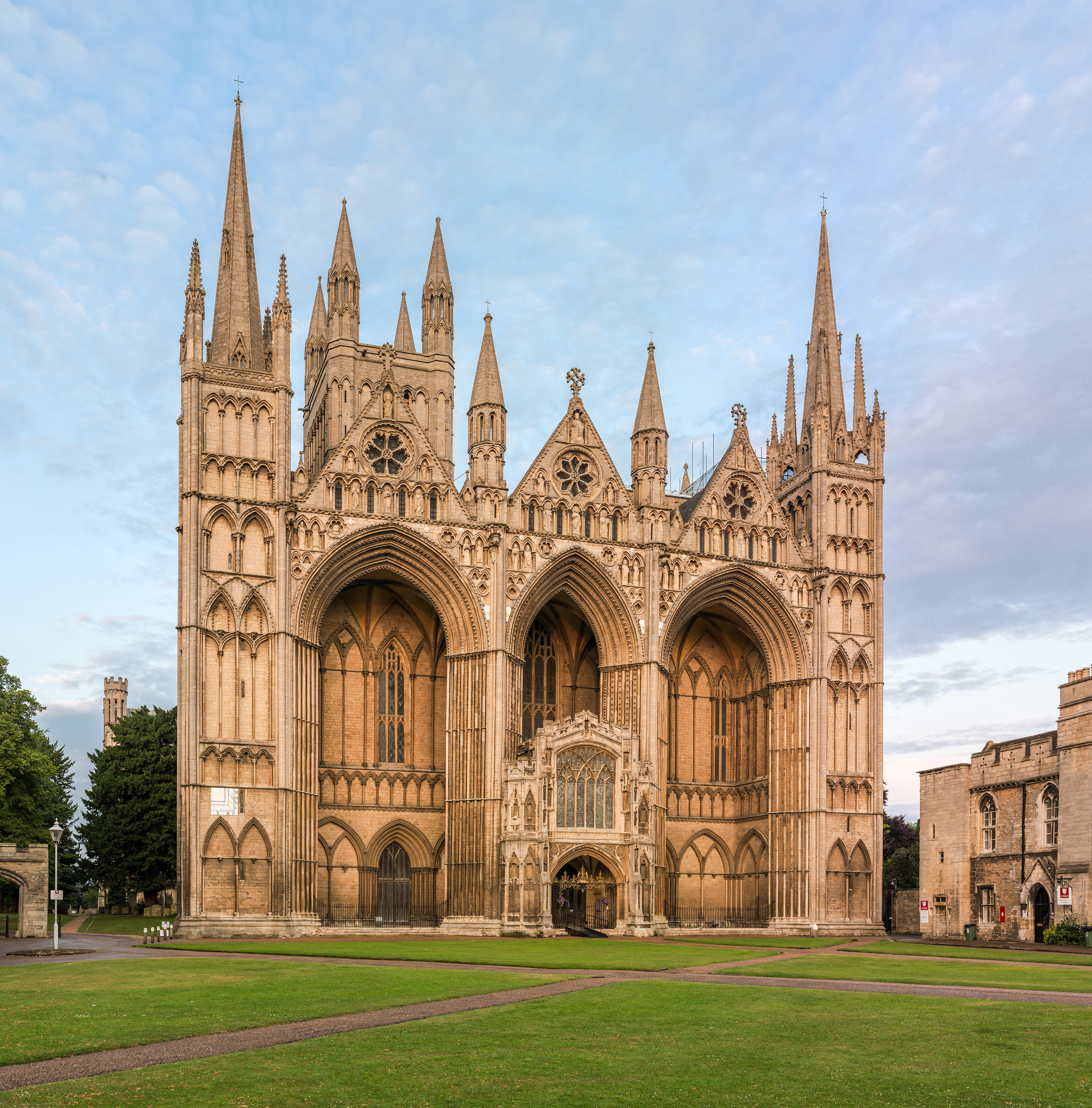 The exterior of Peterborough Cathedral in Cambridgeshire, England.